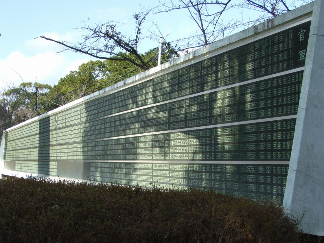 Cenotaph of 4,000 victims by the Battle of Tabaruzaka in 1877. Located beside the Tabaruzaka battlefield, Ueki, Kumamoto